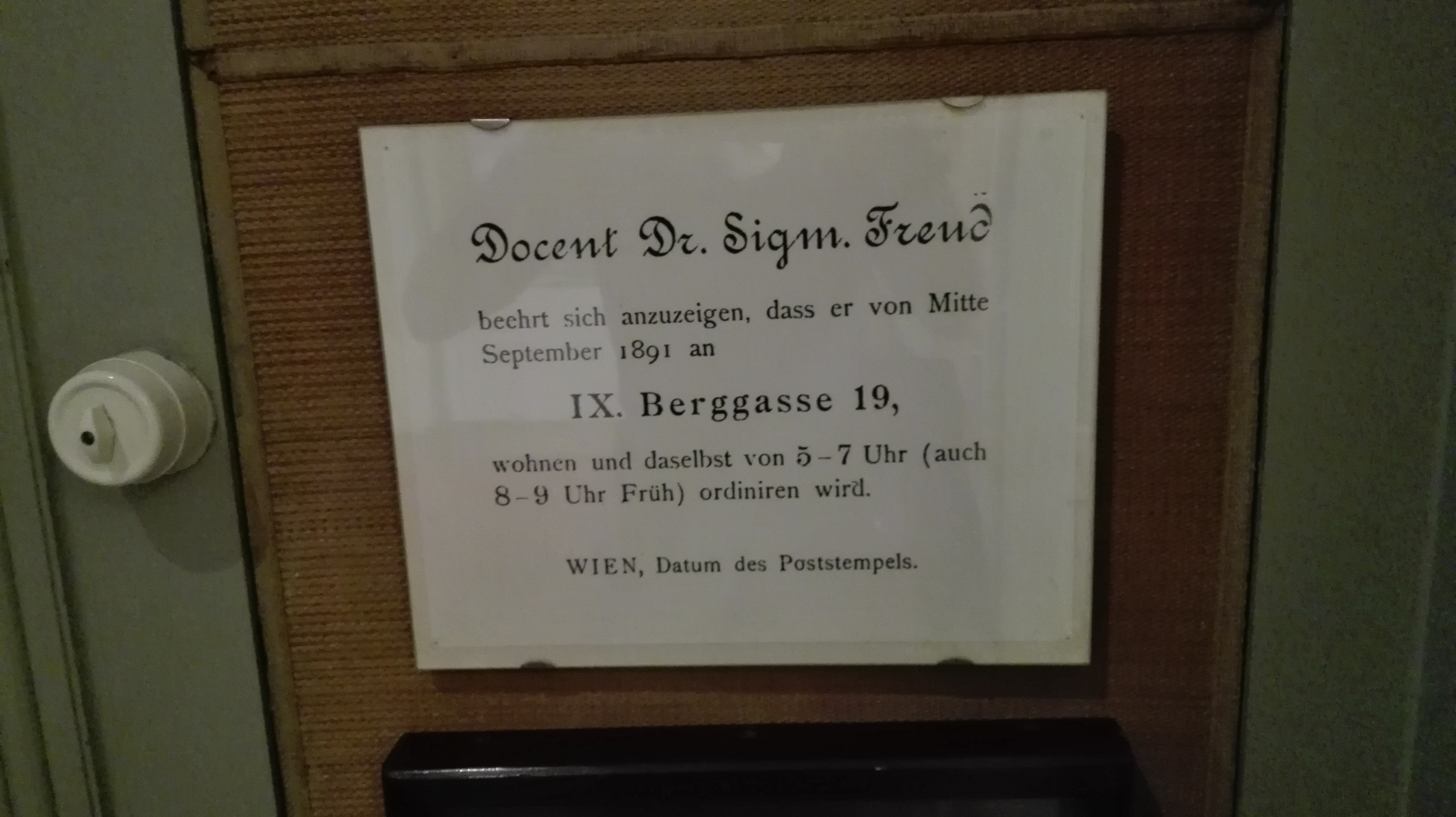 Freud announces to open his surgery in Berggasse 19, Vienna, Austria